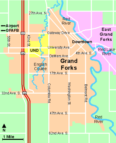 This is a map of the city of Grand Forks, North Dakota.